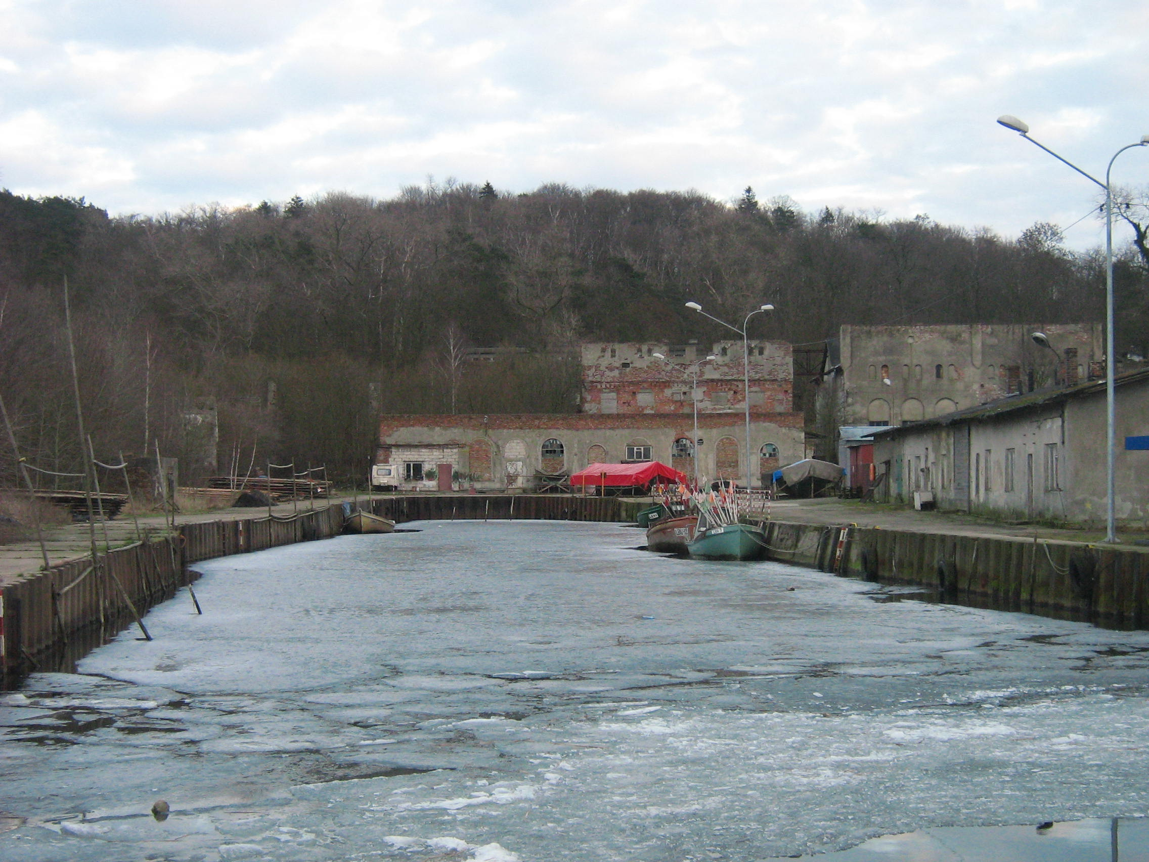 Harbour basin and ruins of the old cement factory